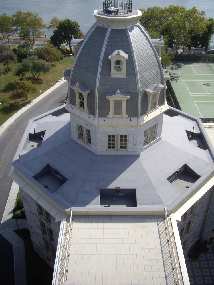 The Octagon on Roosevelt Island. NYCLPC designation 1976.